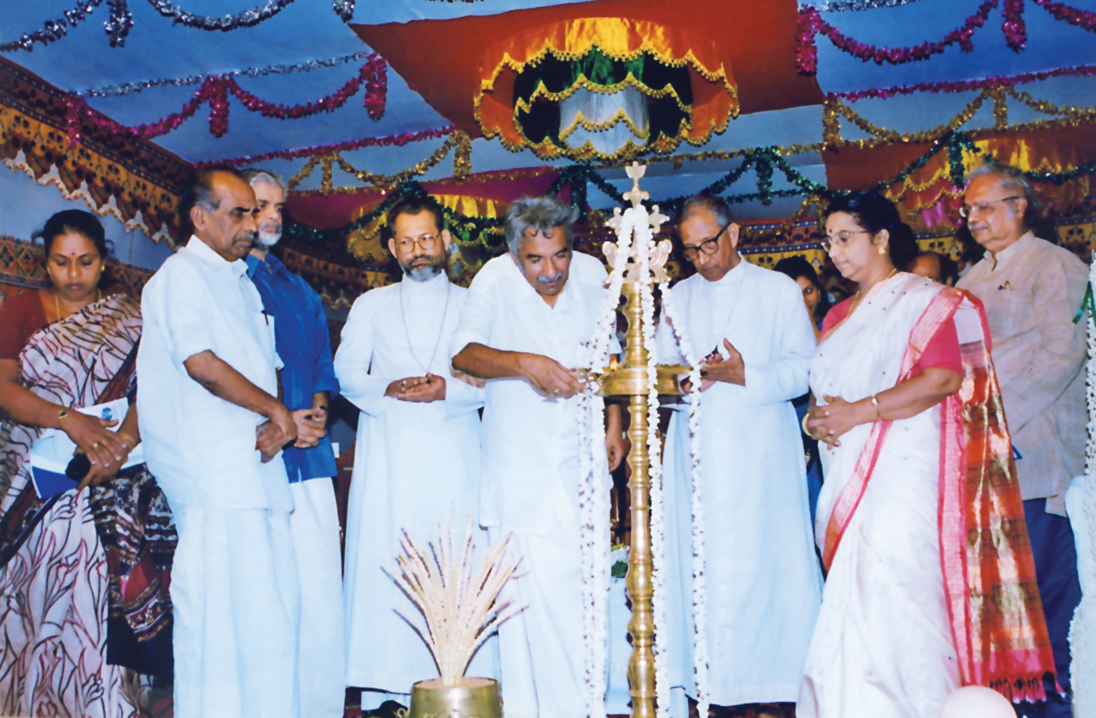 SJCC Inauguration picture